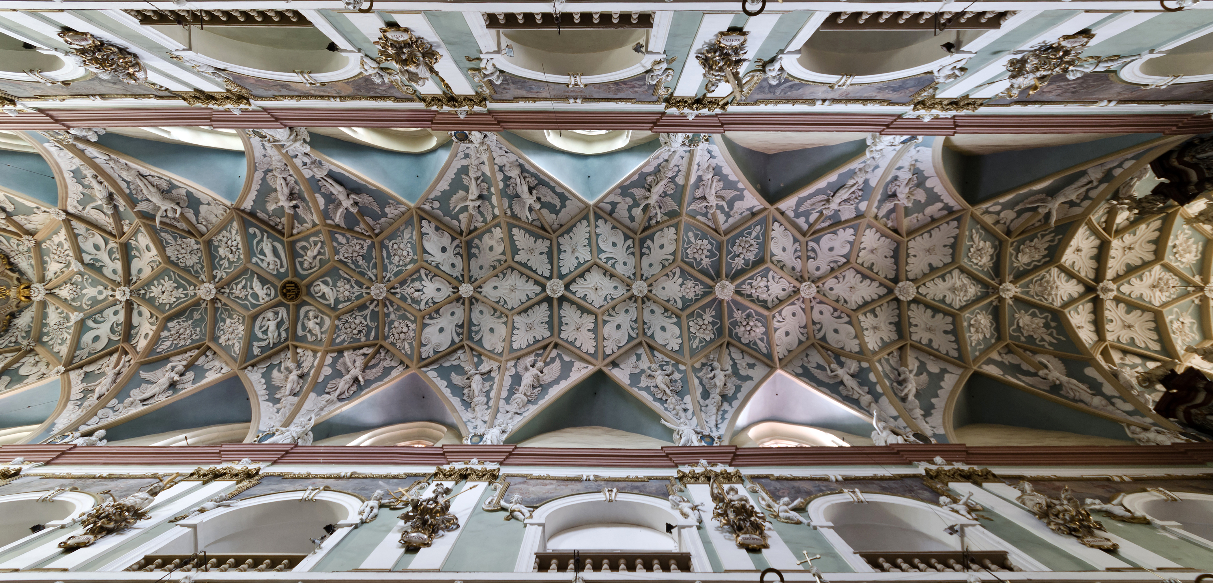 Church of the Assumption in Kłodzko